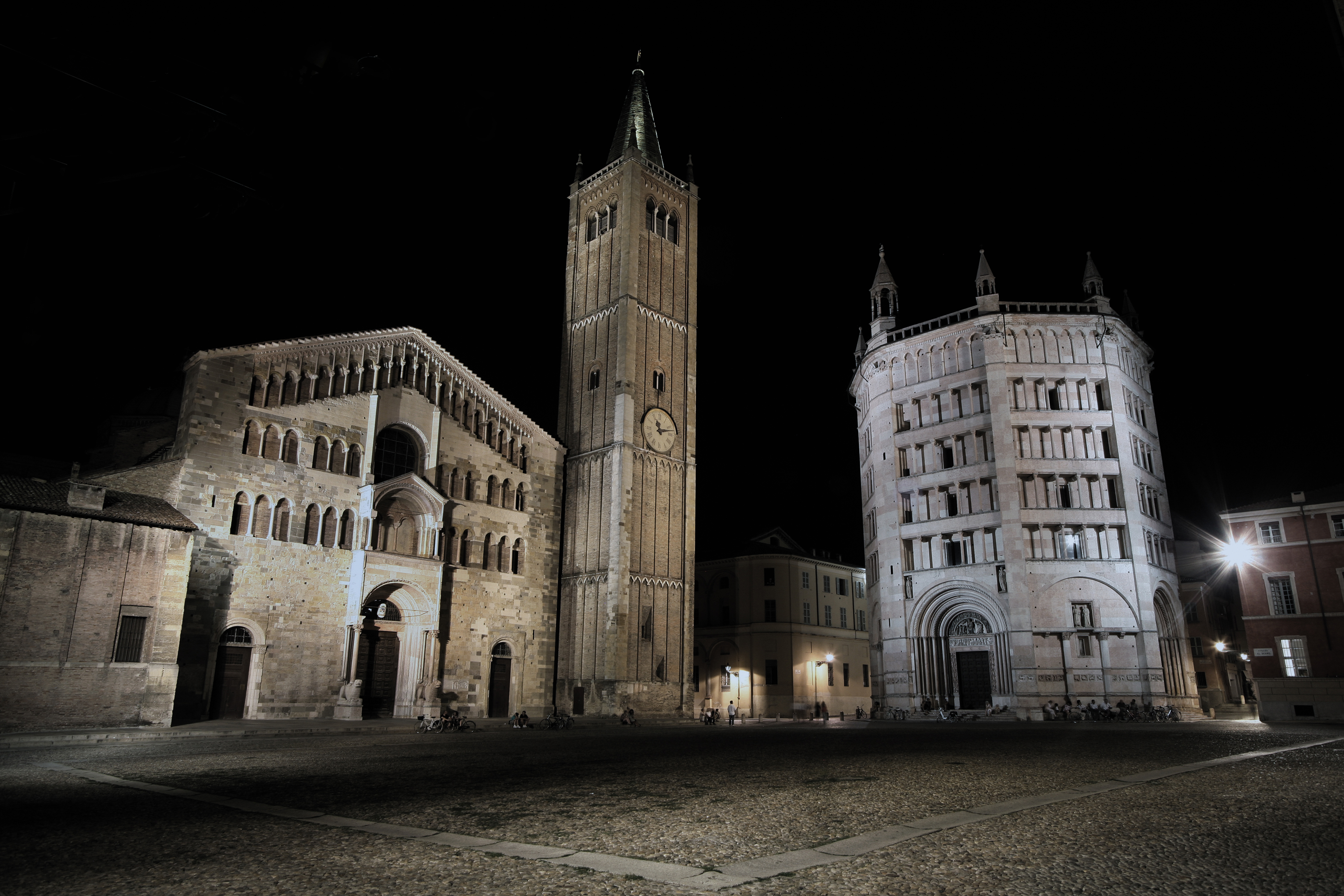 The Duomo and Battistero of Parma by night.